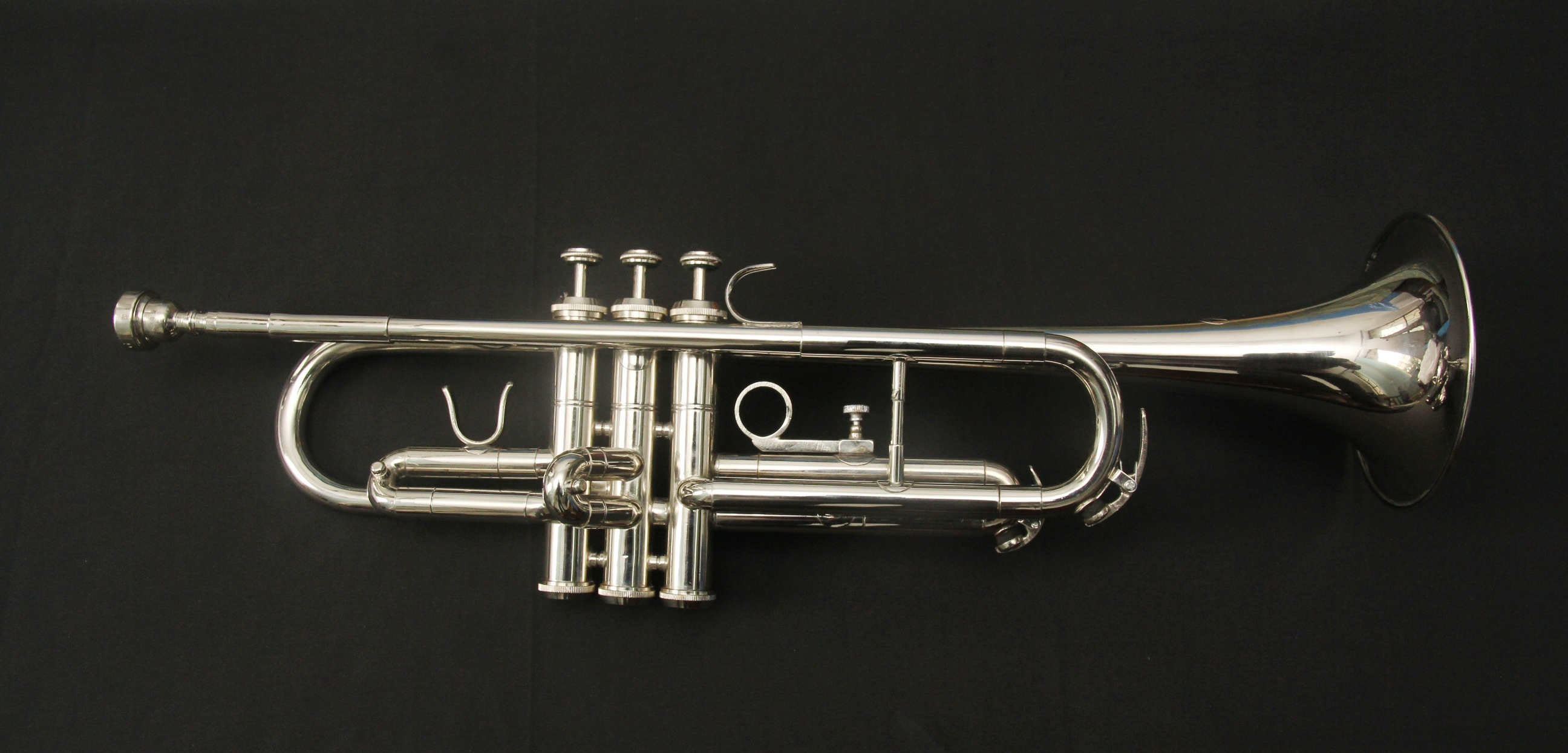 photo of a trumpet